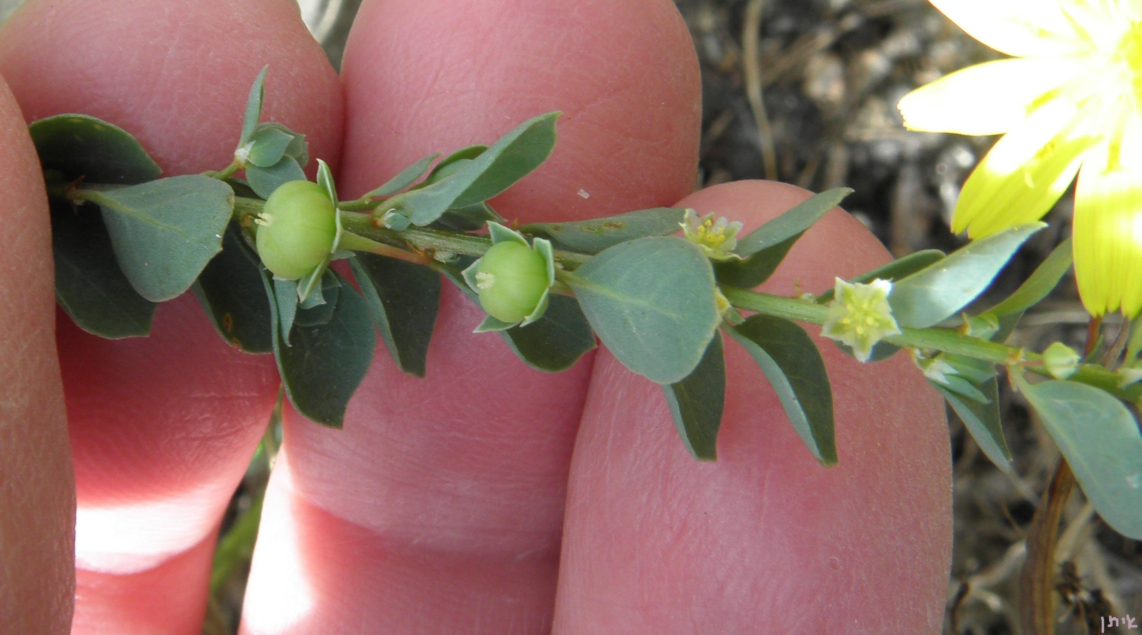 Andrachne telephioides